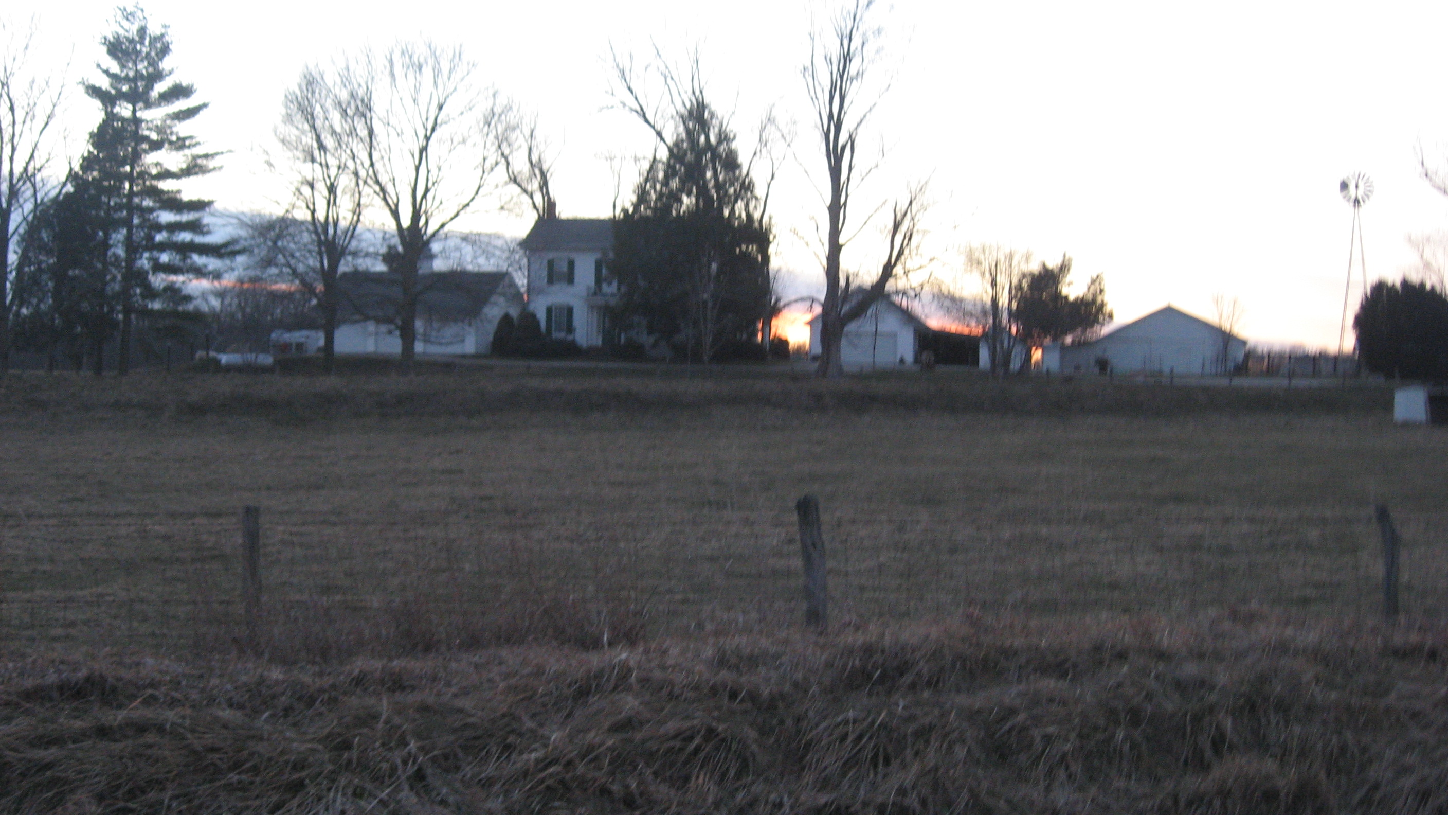 Buildings at the Asher Morton Farmstead, located along the western side of Lower Terre Haute Road southeast of Paris in Elbridge Township, Edgar County, Illinois, United States. Built in 1860, the complex is listed on the National Register of Historic Places.